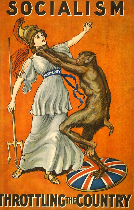 Conservative Party poster from 1909, in which socialism represented by the beast, is choking Britannia. How the Tories saw the socialist menace in 1909.